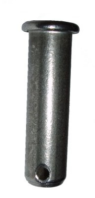 Bolt with hole - locked with sprint/pin